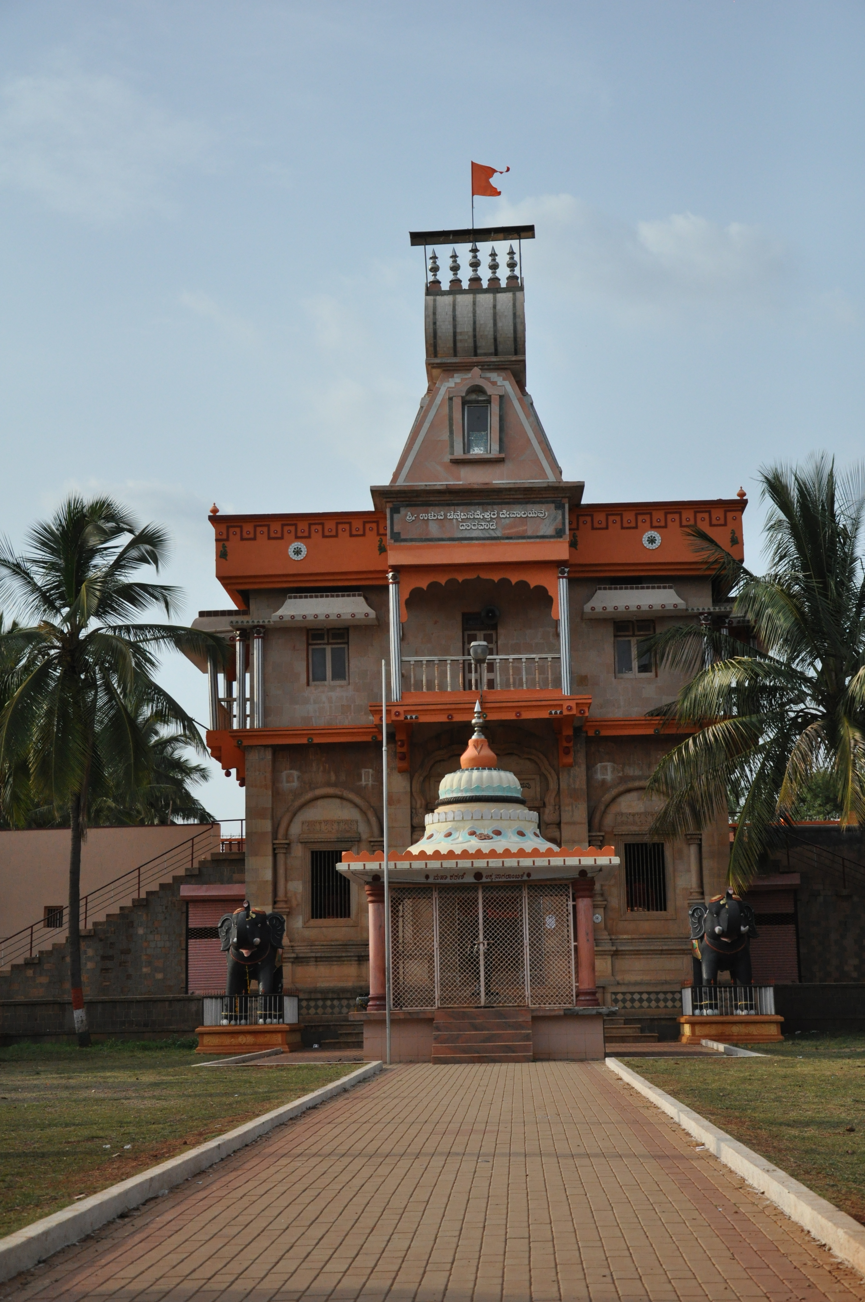 Ulavi Shree Channabasaweshwara temple in Dharwad, Karnataka